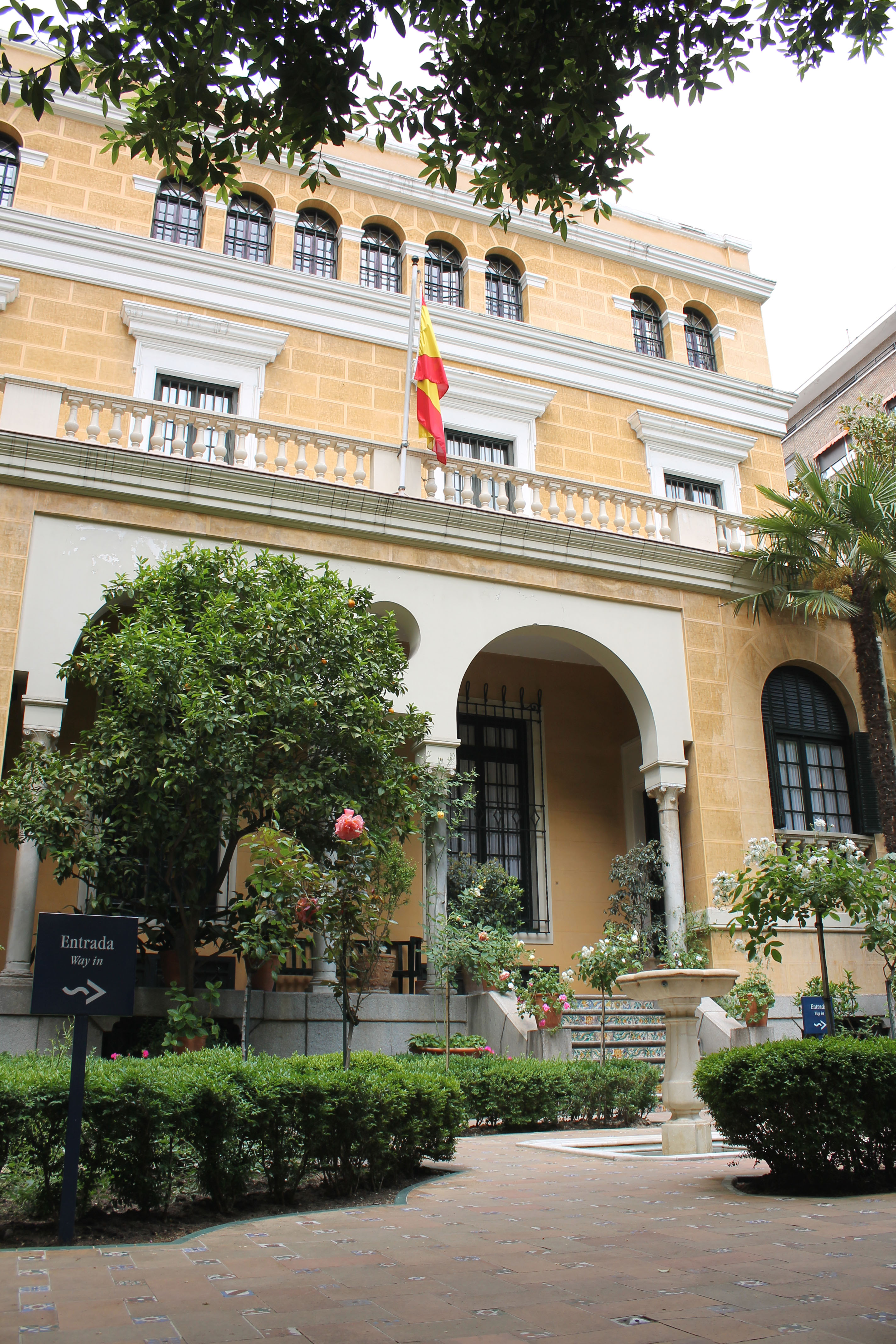 Façade of Sorolla Museum in Madrid (Spain).